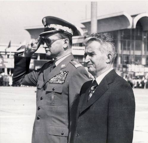 Wojciech Jaruzelski and Nicolae Ceaușescu